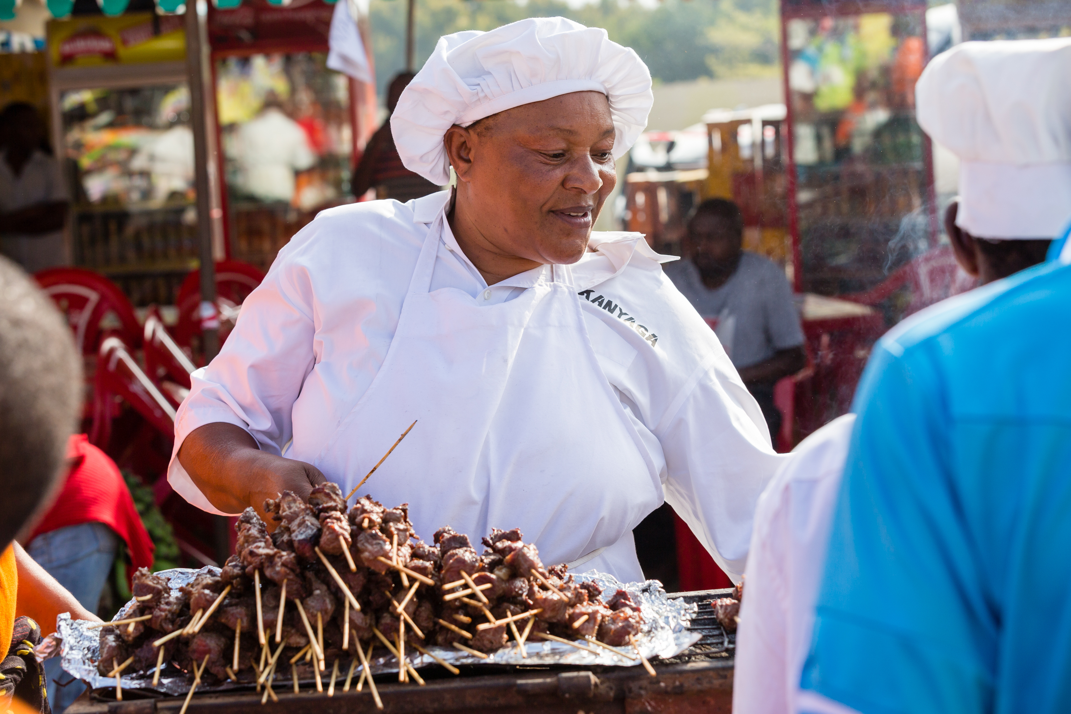 This is an image of "African people at work" from Tanzania